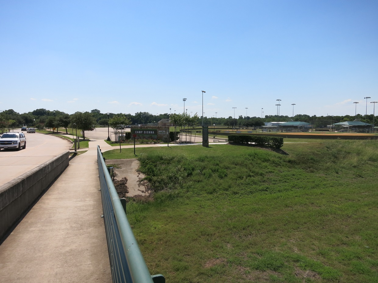 Photo shows the north side of Camp Sienna at 7725 Camp Sienna Trail, Missouri City, TX 77459. The north side has baseball fields. View is toward the west.